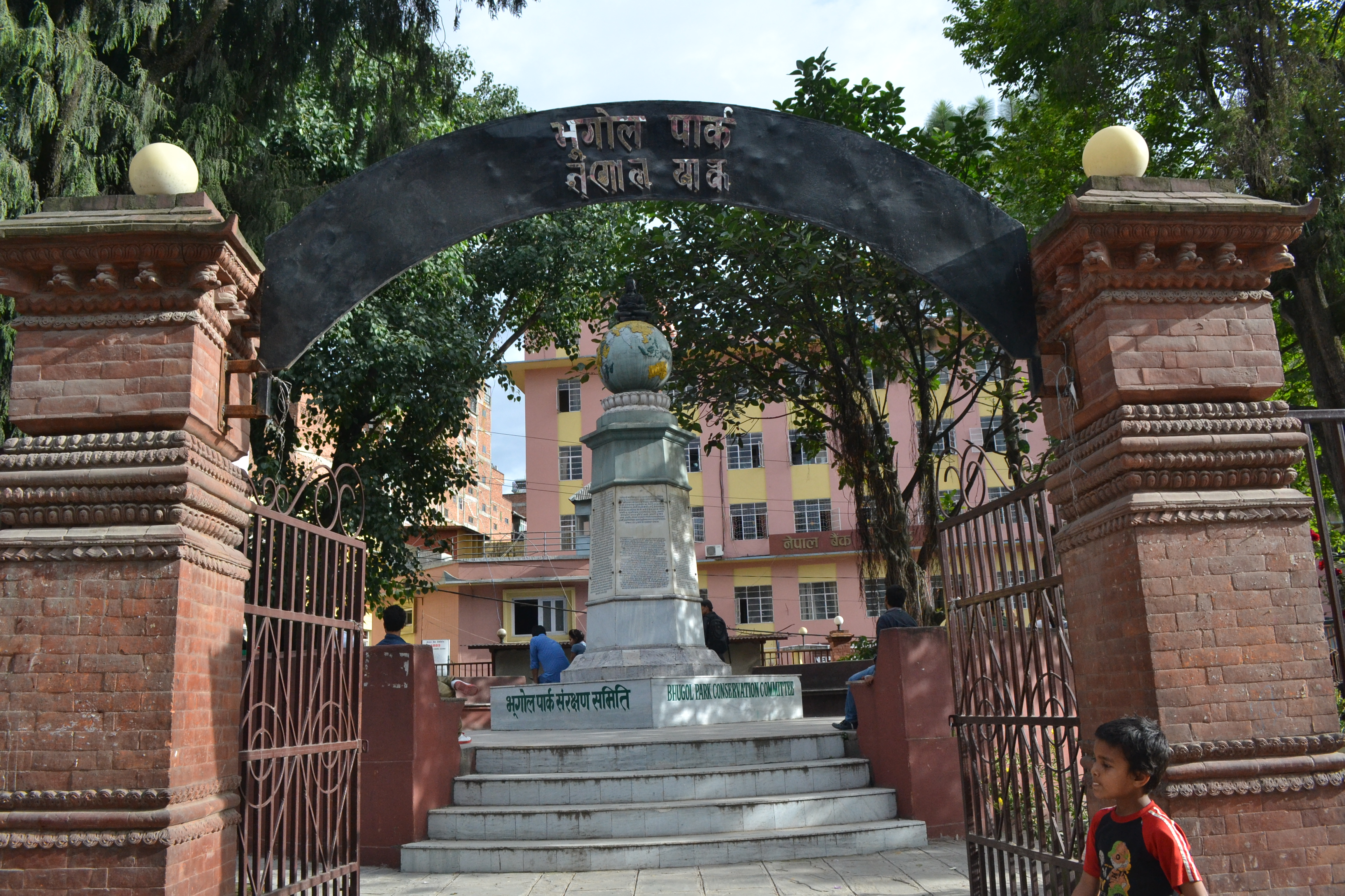 Bhugol Park at Newroad.